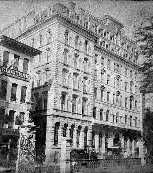 Accession No.: 06_11_000374 Title: Parker House, School Street Series: Boston and Suburbs Creator: Baker, Leander Local Subject: Hotels Commercial Buildings Subject: Boston (Mass.) Format: Sterographs BPL Department: Print